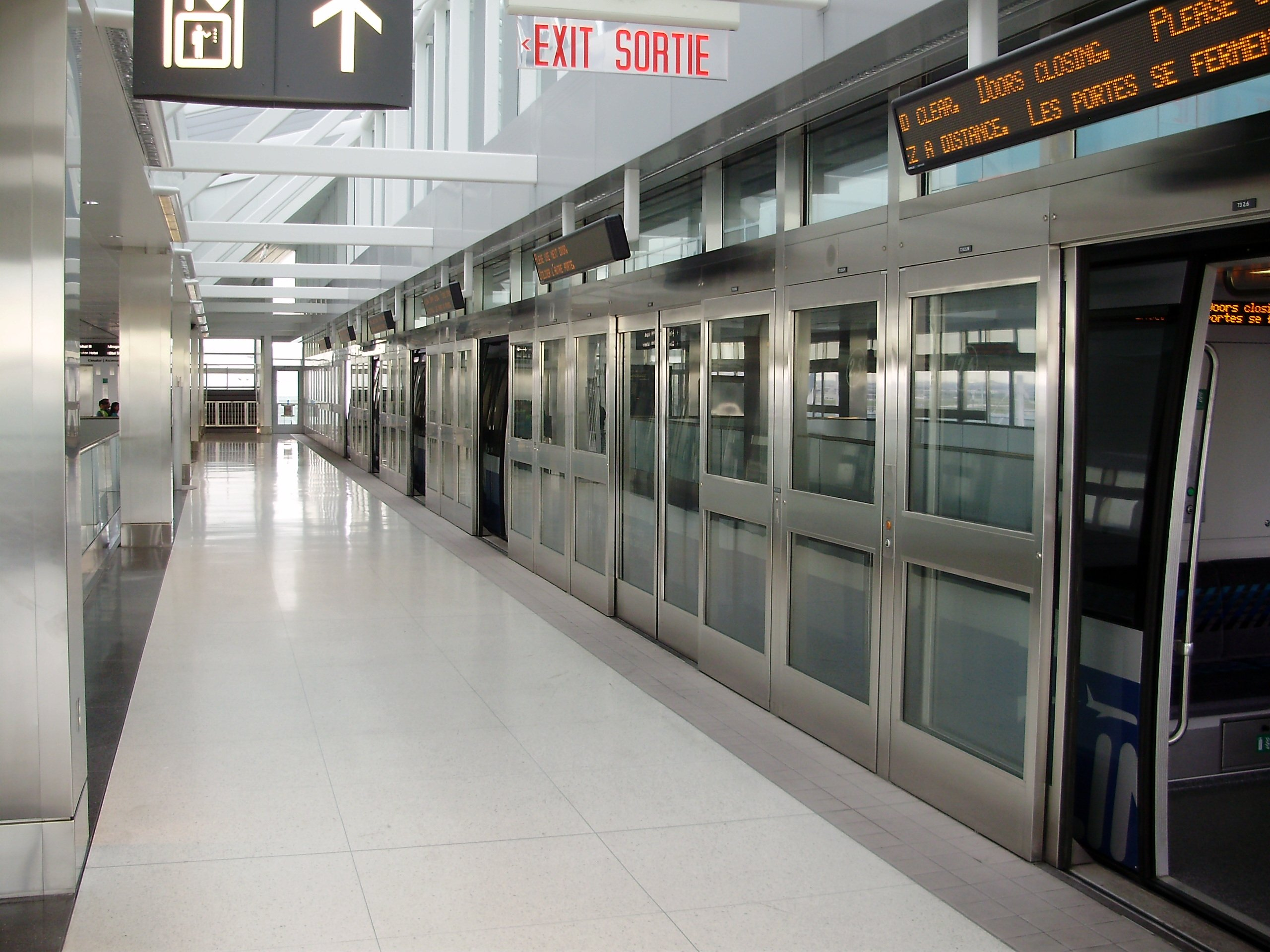 The arrival and departure platform of the LINK Train's Terminal 3 station at Terminal 3 of Toronto Pearson International Airport in Toronto, Canada. The train, visible on the right, is about to depart for Viscount station.